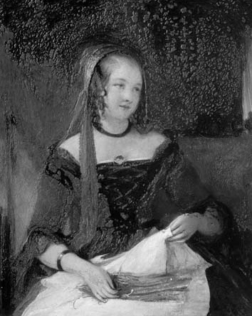 Arethusa Susannah, daughter of Sir Thomas Gery Cullum of Hardwick House, Suffolk, and wife of Thomas Milner Gibson. Courtesy of the Spanton Sparman Collection, Bury St Edmunds Past and Present Society.